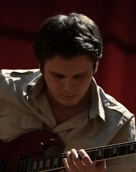 Dávid Kollár